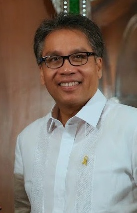 President Benigno S. Aquino III greets Davao Oriental Governor Corazon Malanyaon during the courtesy call at the Music Room of the Malacañan Palace on Wednesday (August 20, 2014). (Photo by Gil Nartea / Ryan Lim / Malacañang Photo Bureau)